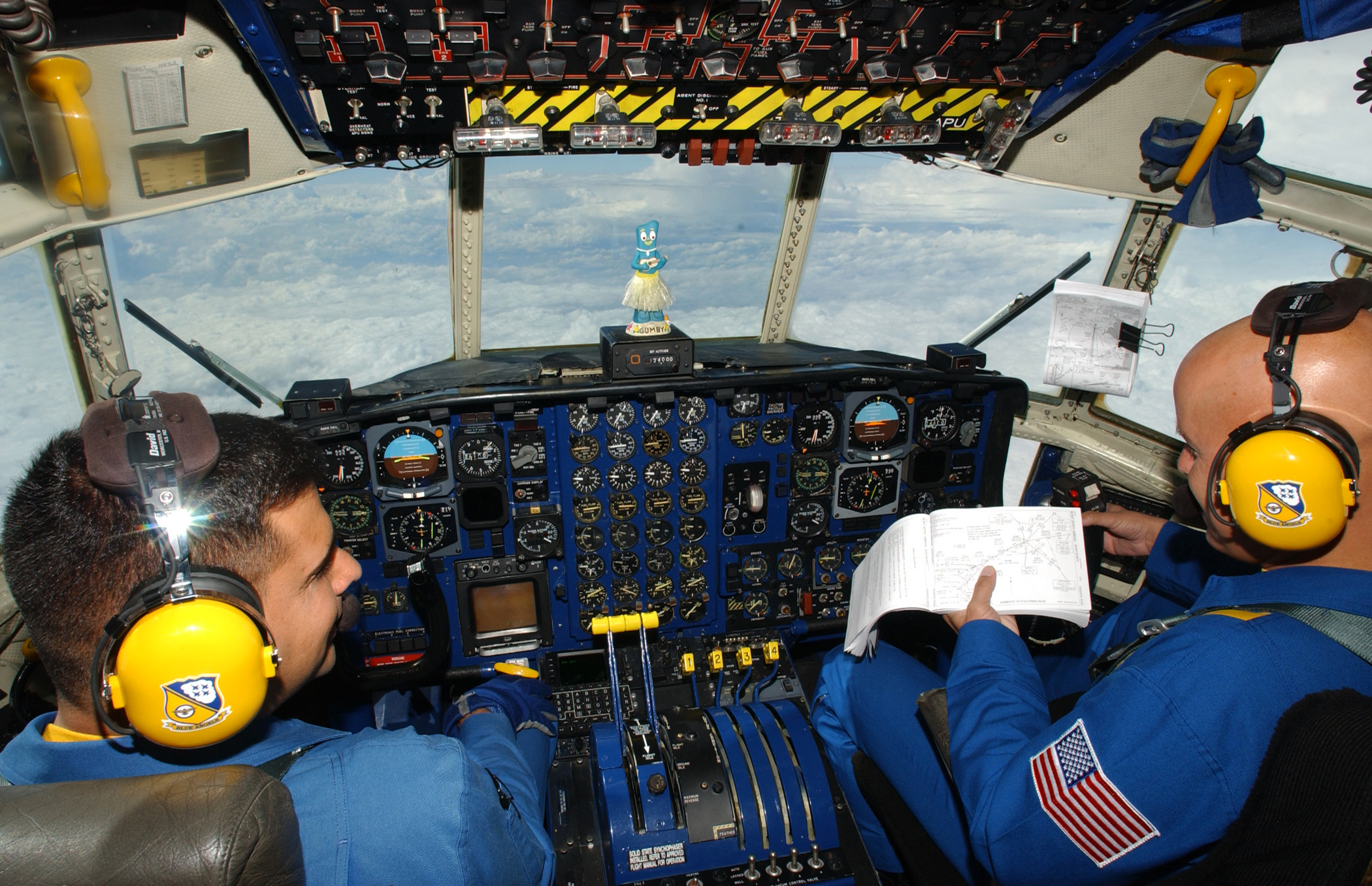 Blue Angels' C-130 Hercules Transport aircraft “Fat Albert” pilots Maj. Ken Asbridge and Maj. Eric Himler, discus flight plans while in route to Houston, Texas. Fat Albert, home based at Naval Air Station Pensacola, Fla., has been flying relief missions into Pensacola following the devastation of Hurricane Ivan. On this mission, Fat Albert ferried pilots and maintenance personnel from Pensacola based, Training Air Wing Six (VT-6) to their evacuated aircraft in Houston, Texas.